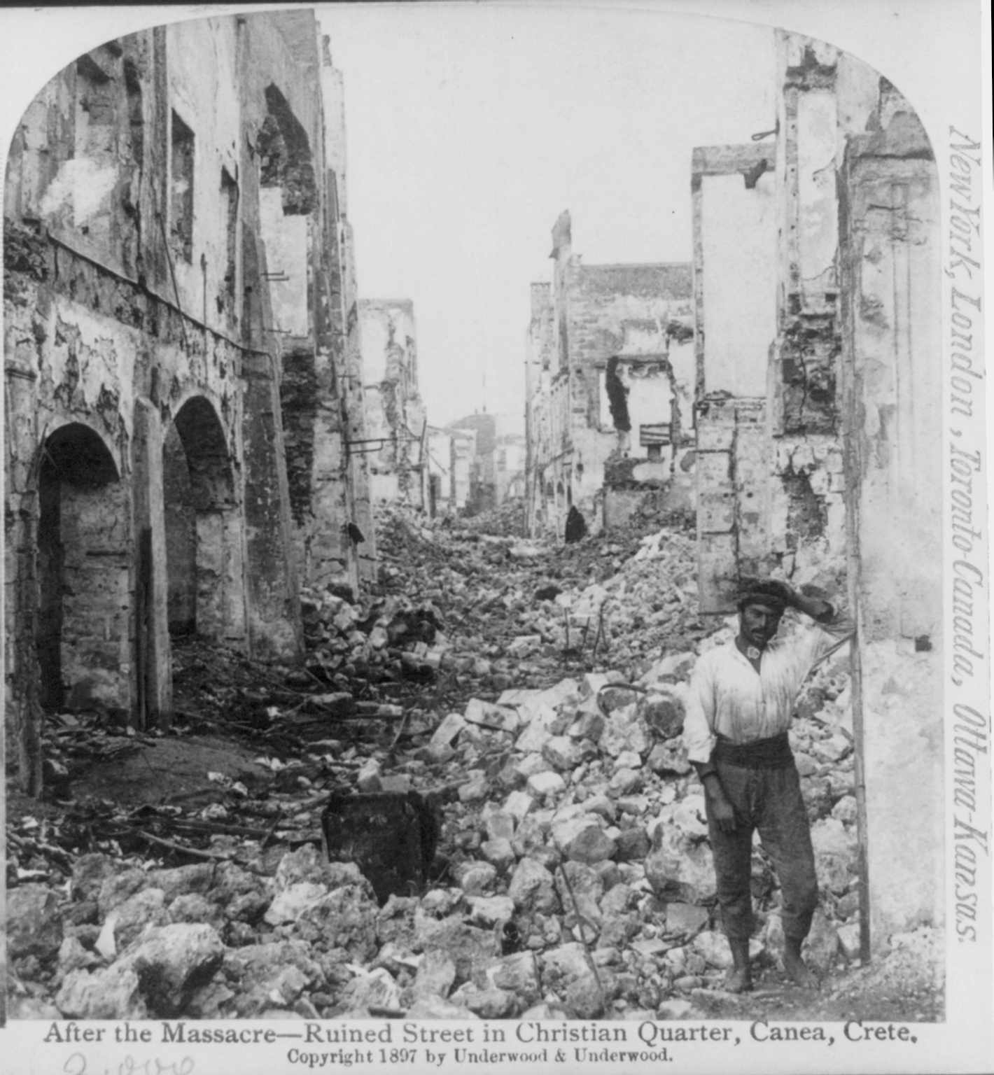 After the massacre - ruined street in Christian Quarter, Canea, Cretein 1897